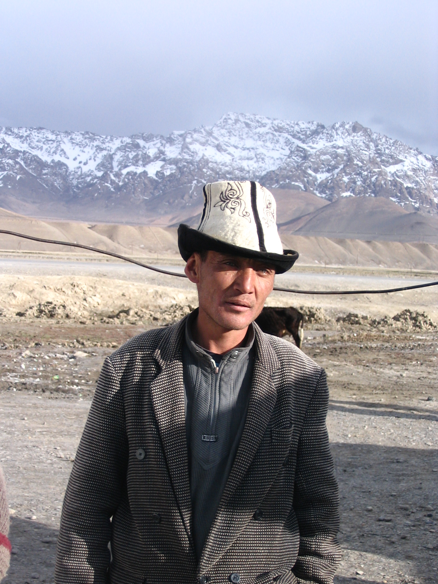 Kyrgyz around Murghab, in the Pamirs of Tajikistan.